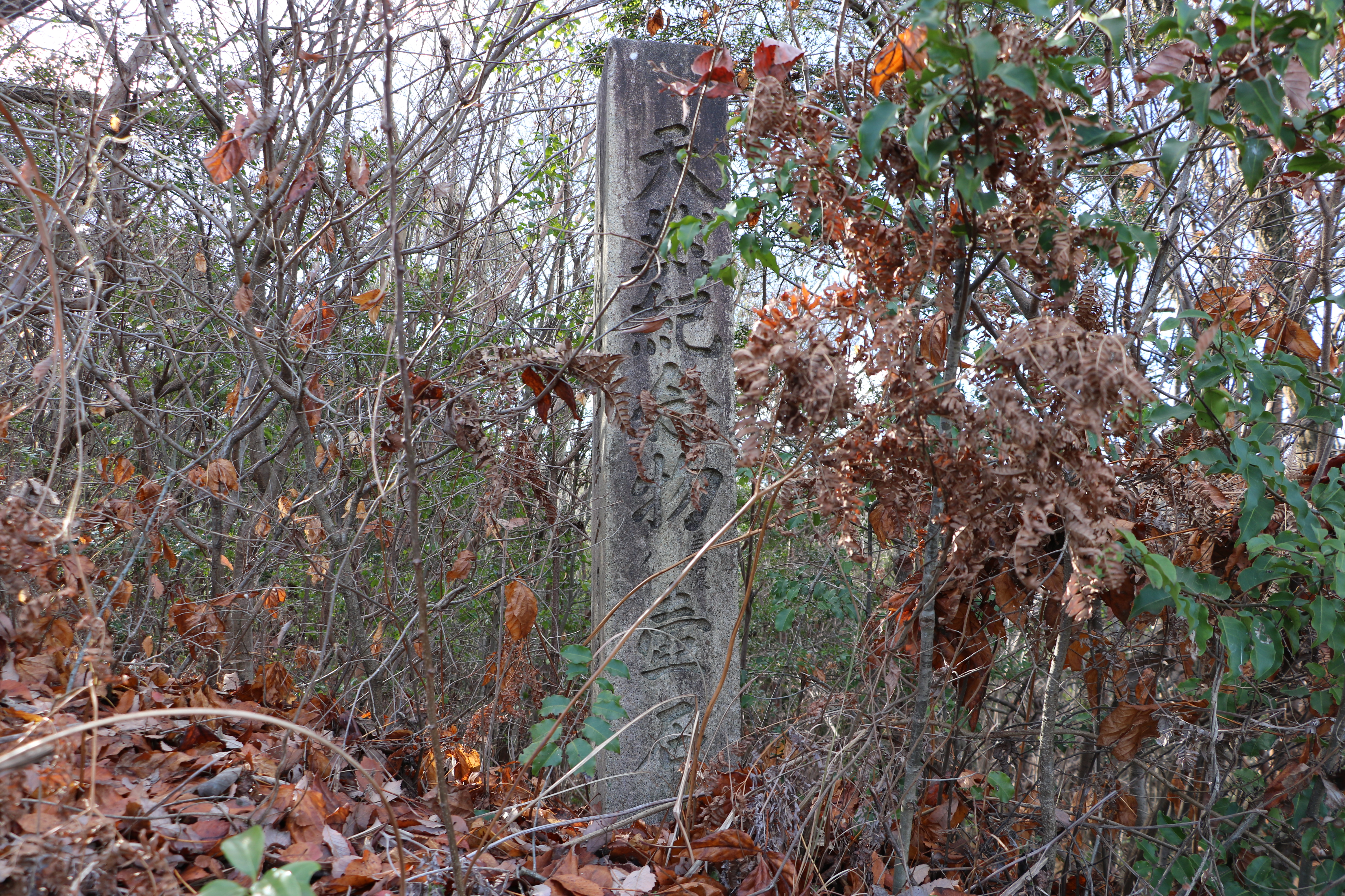 Stone monument in Mino no Tsuboishi, natural monument of Japan